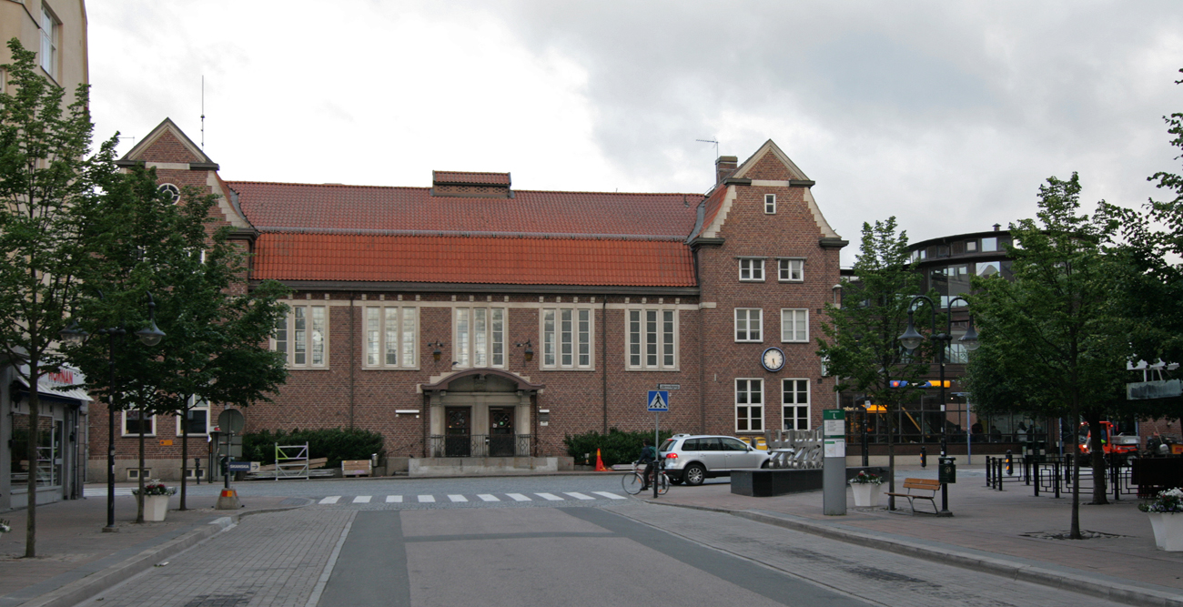 Hässleholm railway station, city side